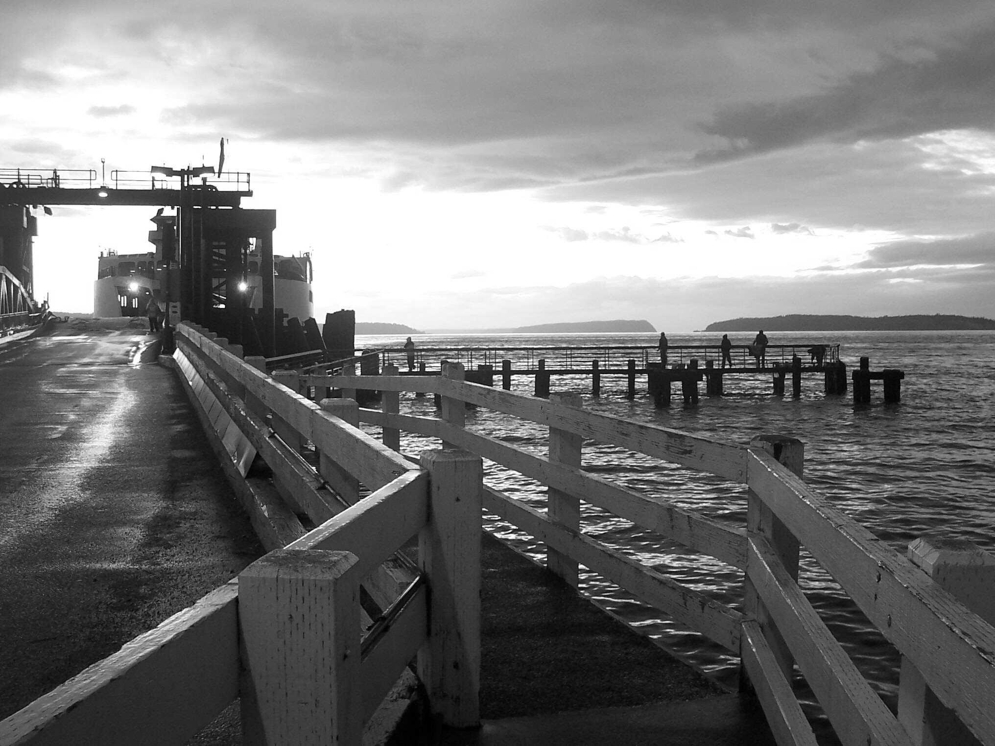 The Whidbey Island Ferry terminal at Mukilteo, Washington